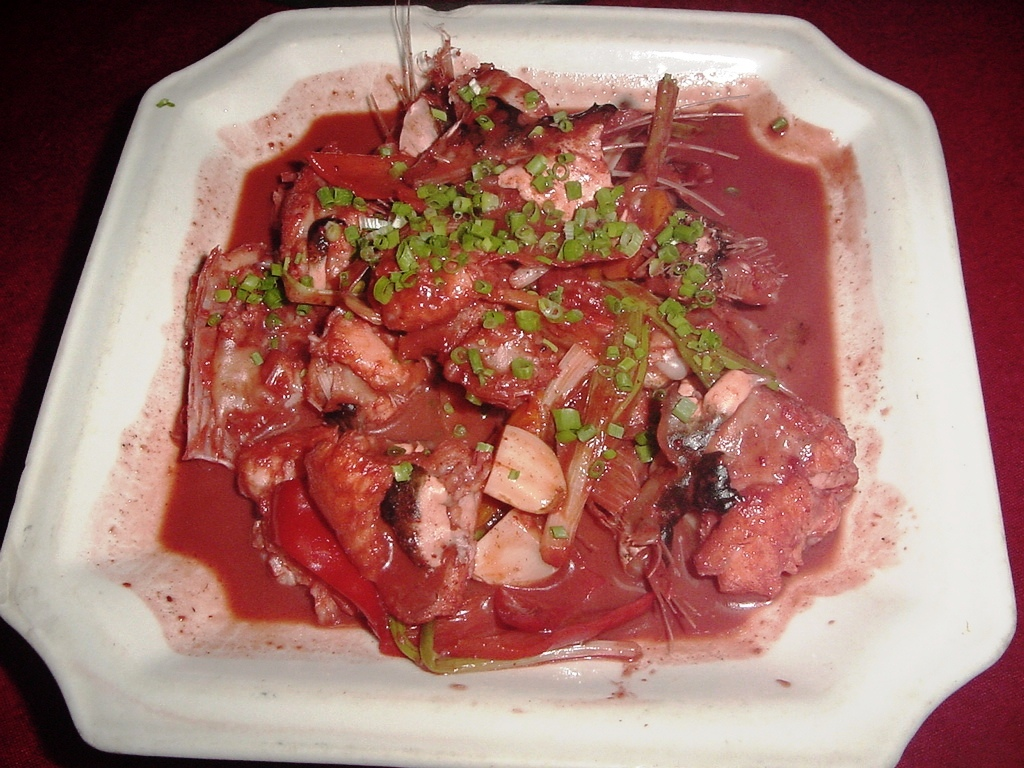 Braised angler with Monascusin sause in Fuzhou